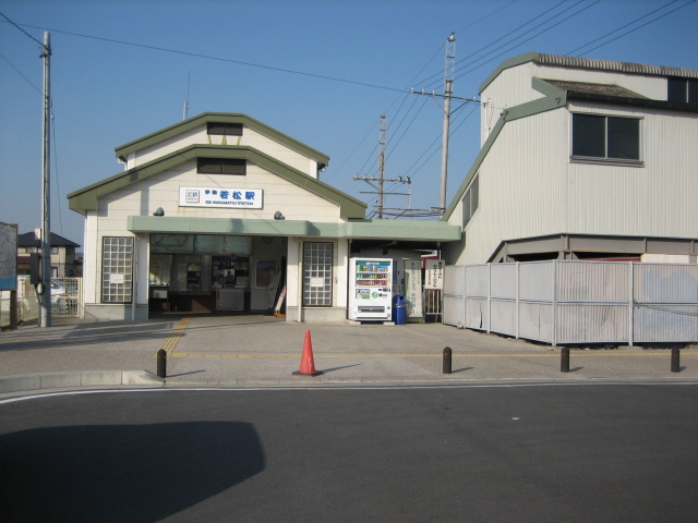 Kintetsu Ise-Wakamatsu Station